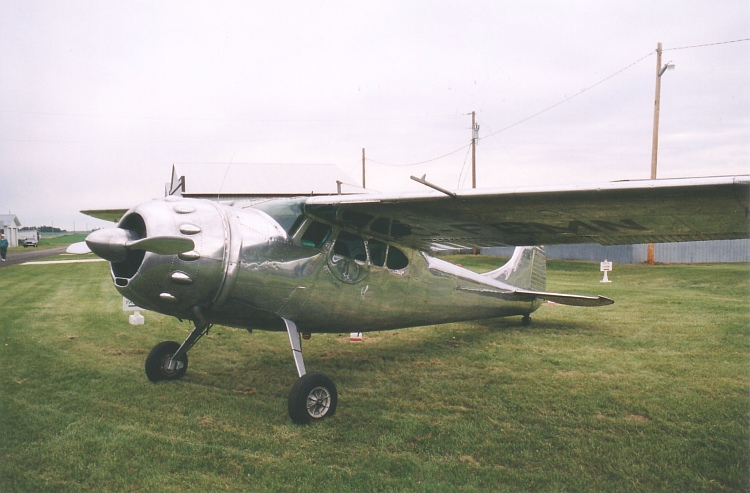 I took this photo of a Cessna 195 at Lacombe, Alberta in 1998.